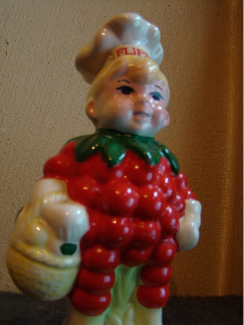 Flipje Tiel